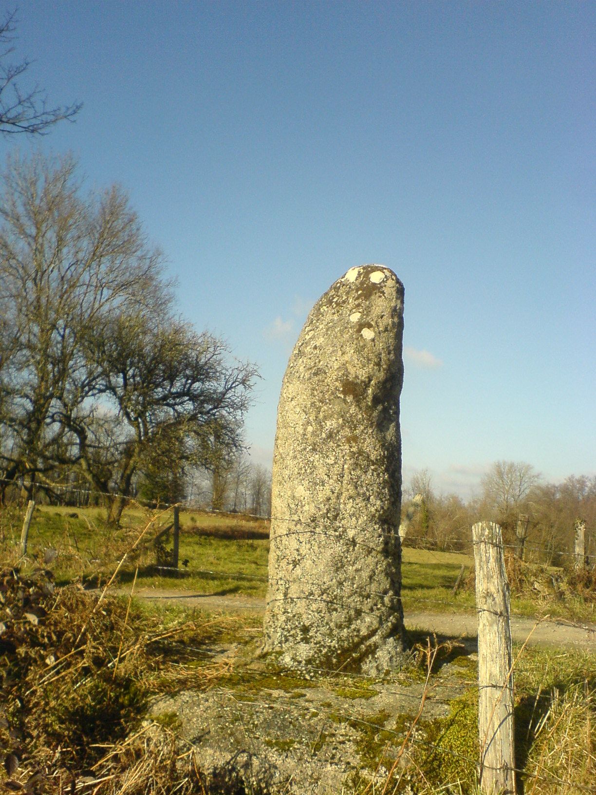 Milestone